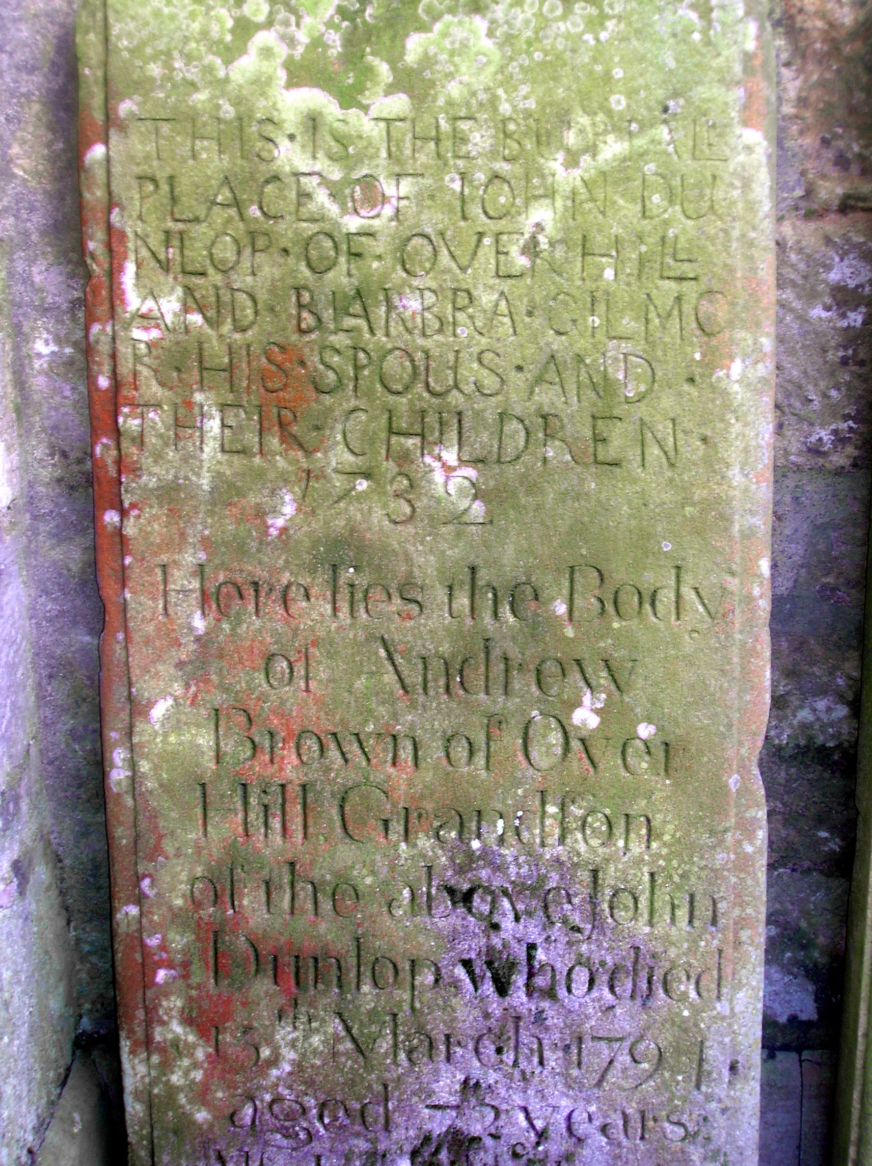 The gravestone of Barbara Gilmour and John Dunlop at Dunlop Kirk in East Ayrshire. 2007.